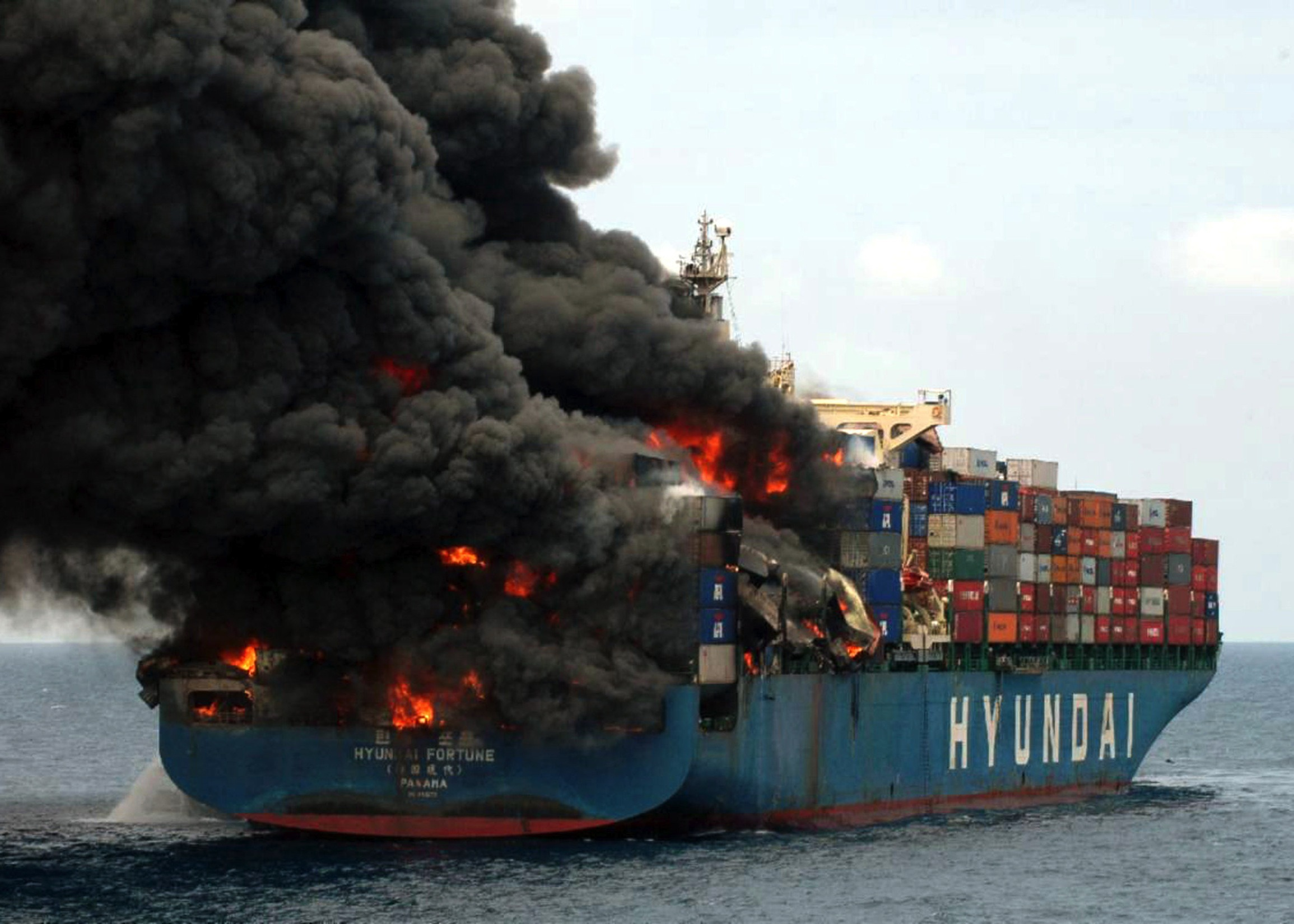 Burning container ship Yemin